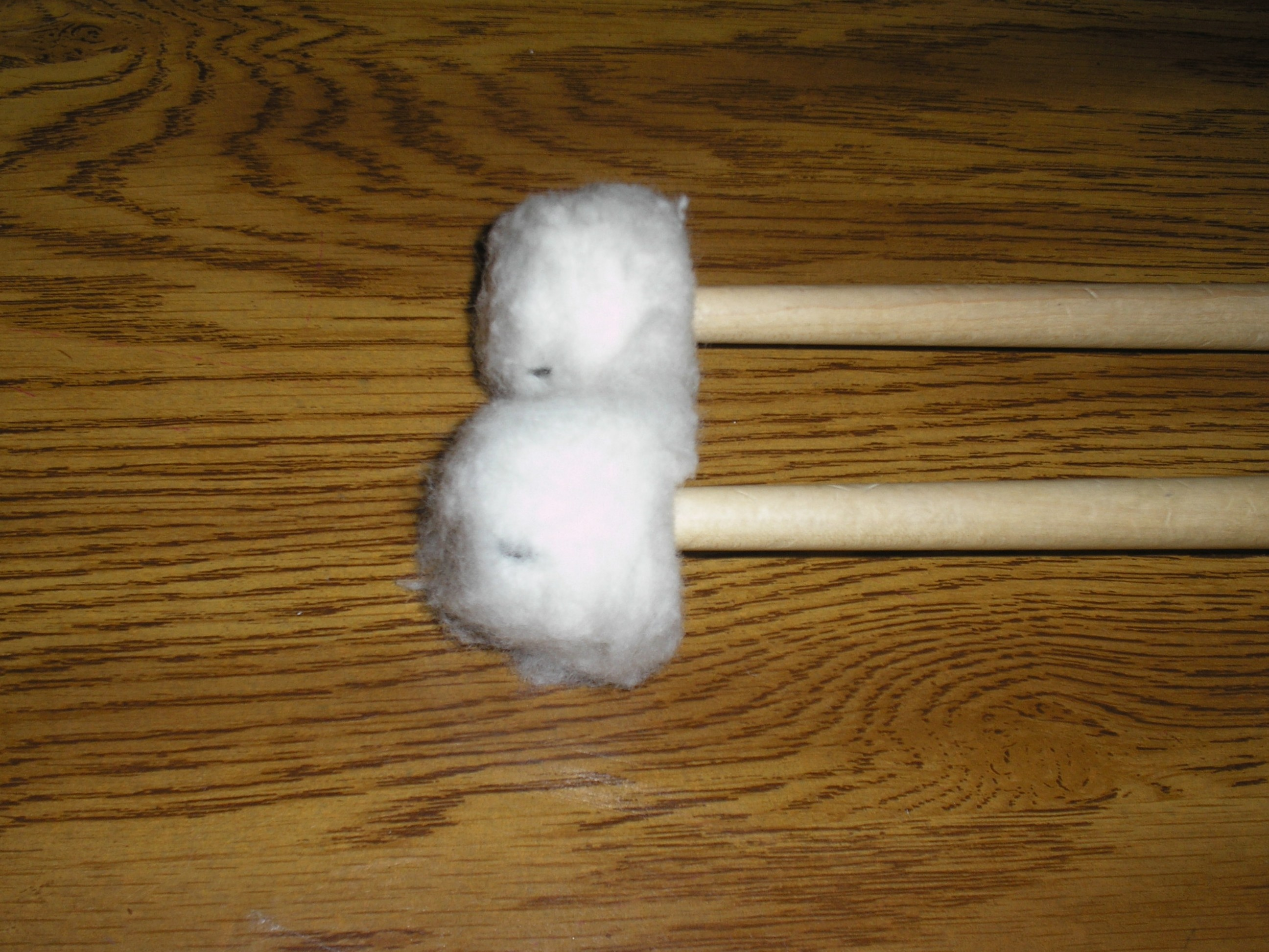 Timpani mallets are used for hitting timpani heads.